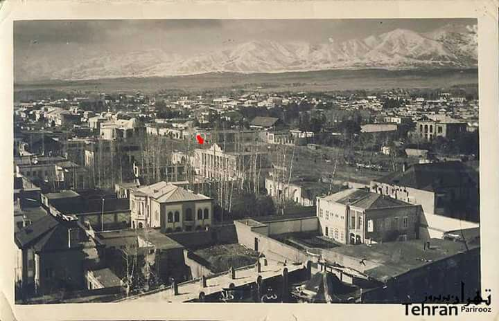 Nizamieh Palace, Tehran, aerial view